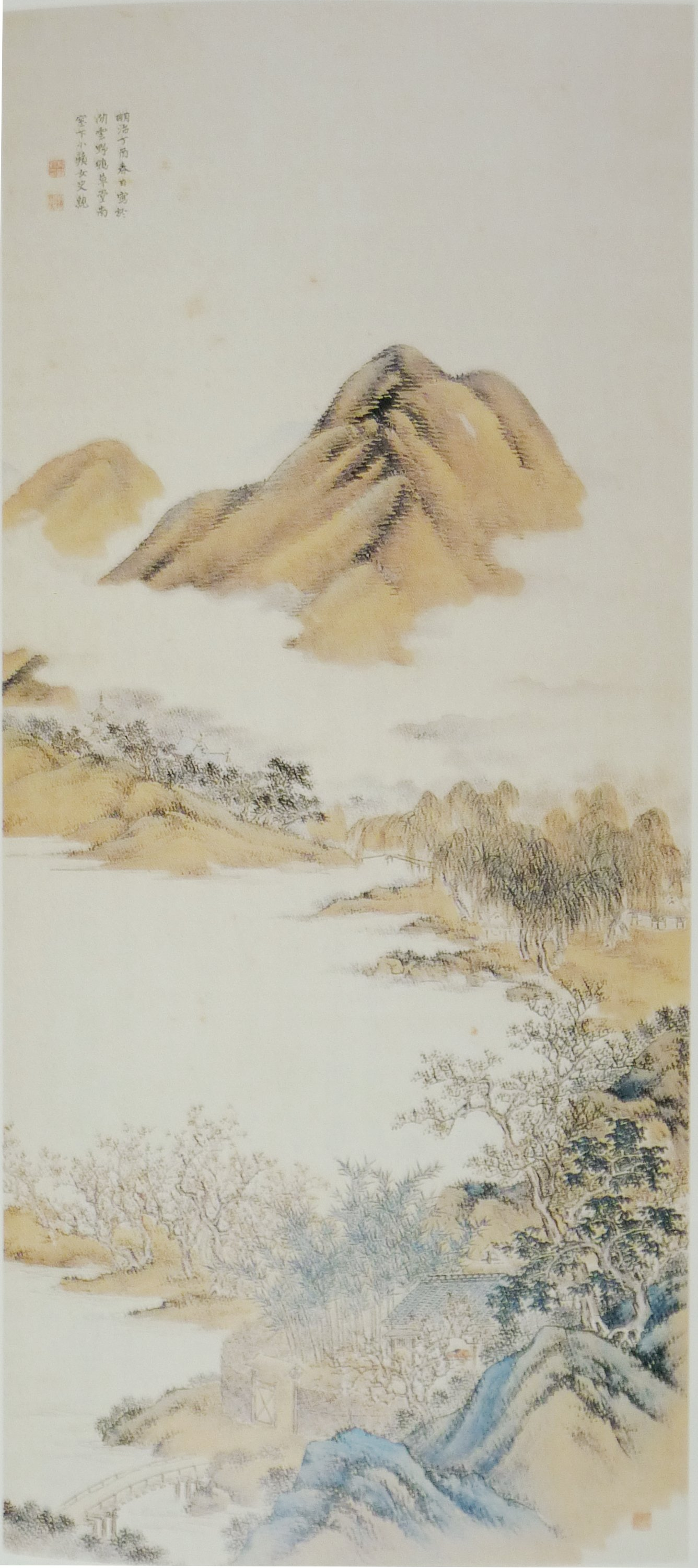 Noguchi Shouhin picture